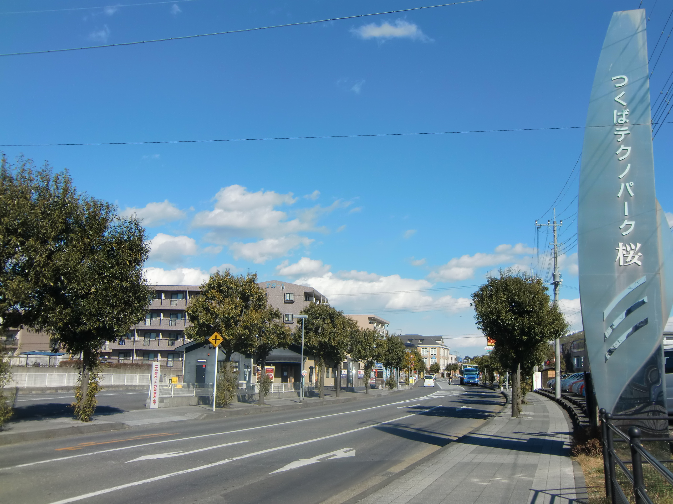 Tsukuba Techno-park SAKURA and Shirakashi dōri Street in Sakura, Tsukuba city, Ibaraki pref., Japan.